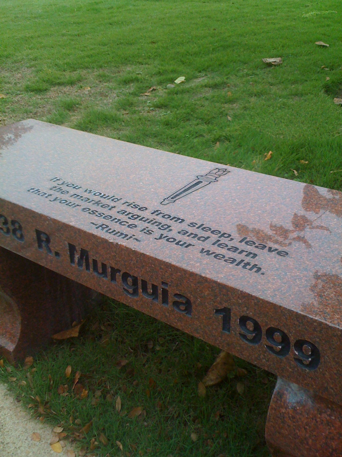 Bench dedicated to Raul Murguia. San Antonio College, Texas. The bench contains carved verses from Rumi.